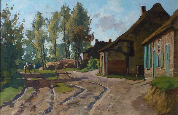 Gezicht op het buurtschap De Rul bij Heeze